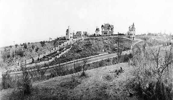 View of the access to Cerro de las Rosas neighborhood in 1935. Cordoba City, Argentina.